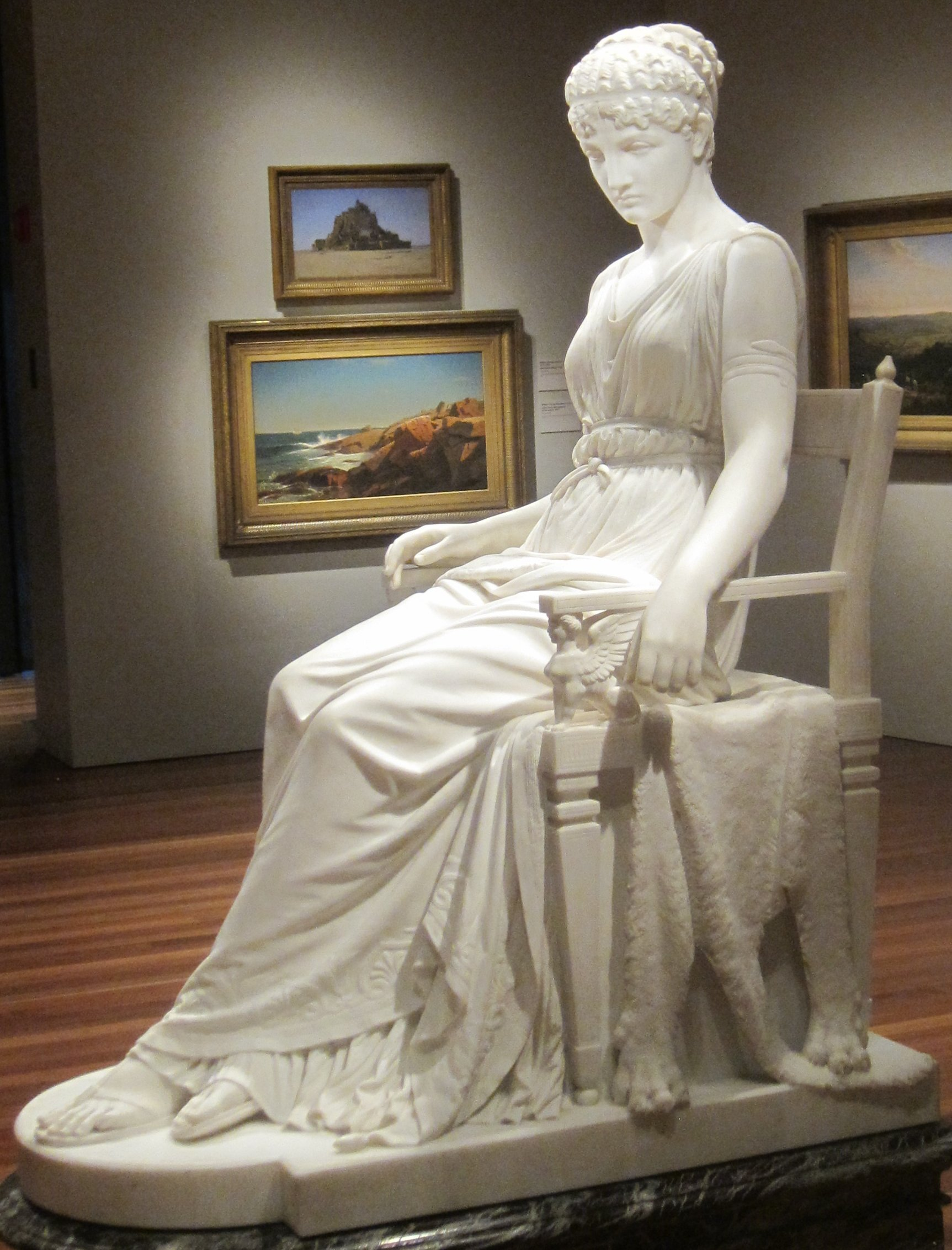 Penelope by Franklin Simmons, marble, 1896. On display at the De Young Museum in San Francisco. 1991.68